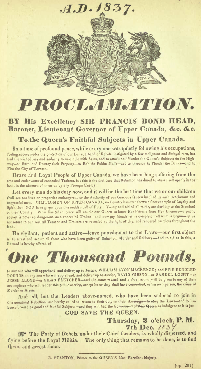 1837 Proclamation for the arrest of William Lyon Mackenzie